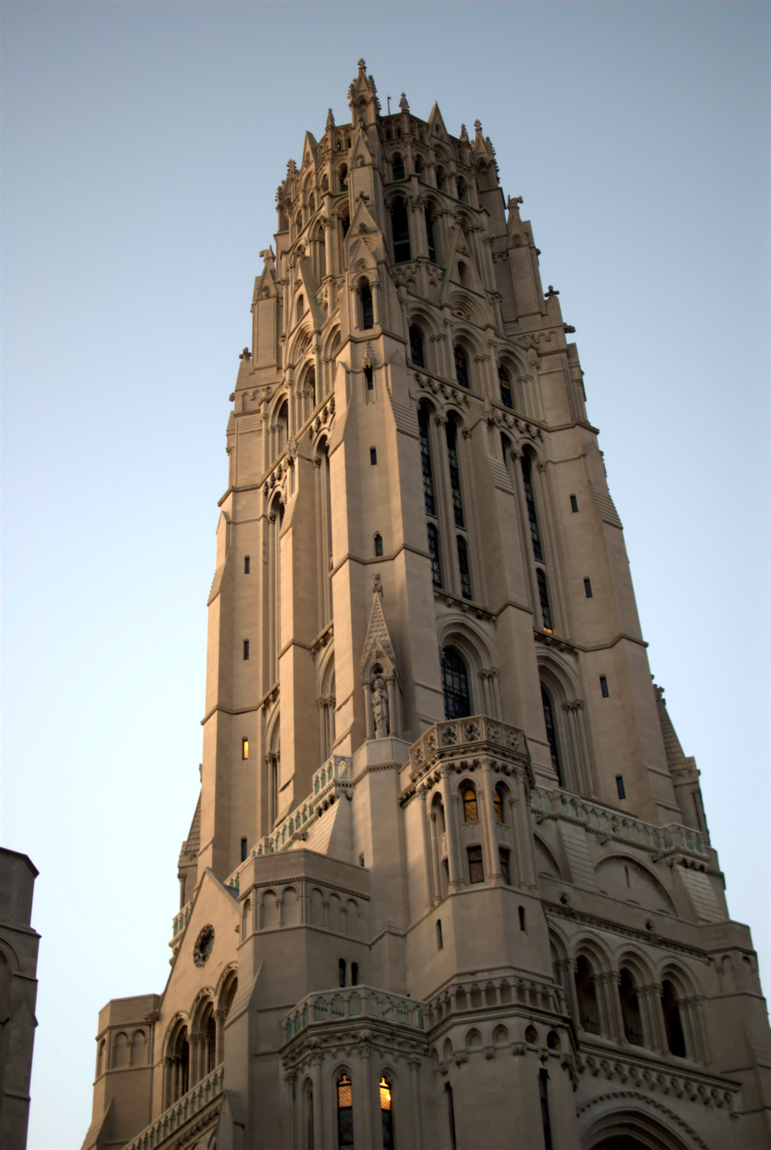 The only real reason these photos are significant is that they were tagged using a bicycle computer (garmin edge 500) that has no real geotagging capability.